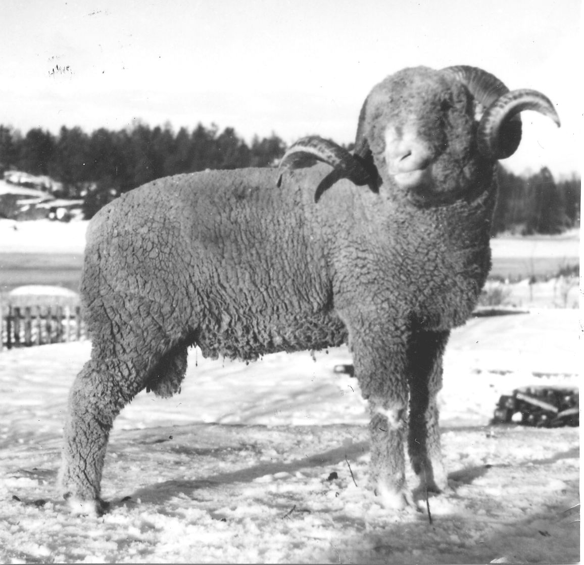 A ram from an old Norwegian sheep breed, tautersau, named after the island Tautra in Frosta municipality, Trøndelag near Trondheim. The breed is now extinct (since the 1970es)